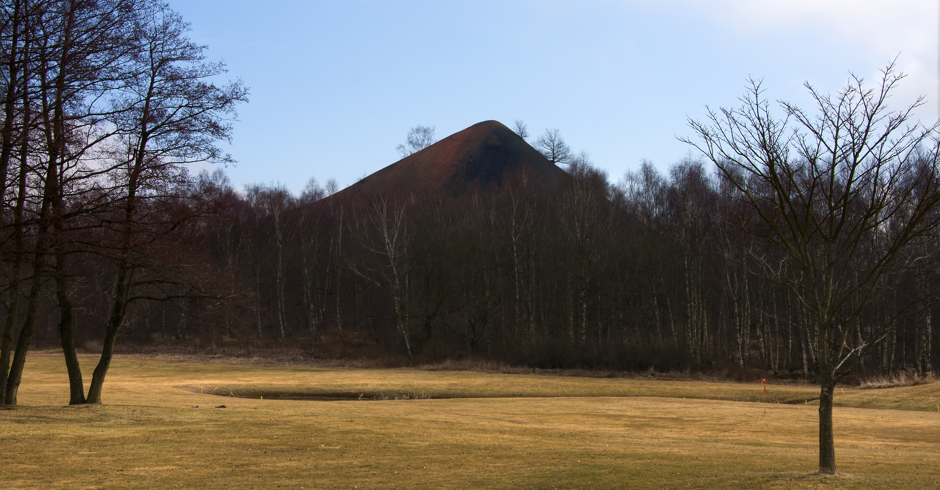 Slag heap near Billesholm in Sweden.